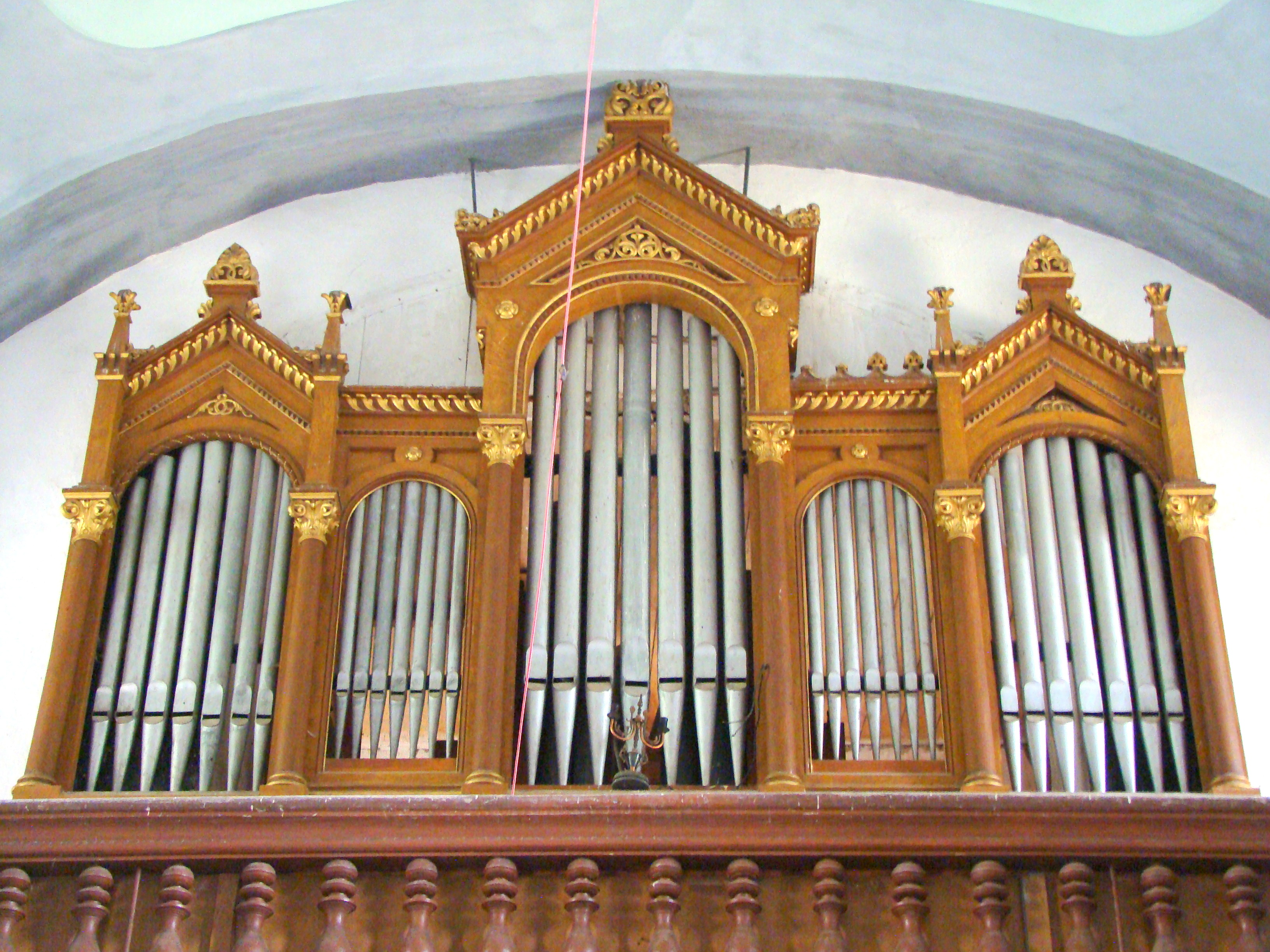 Lutheran church in Batoș, Mureş county, Romania